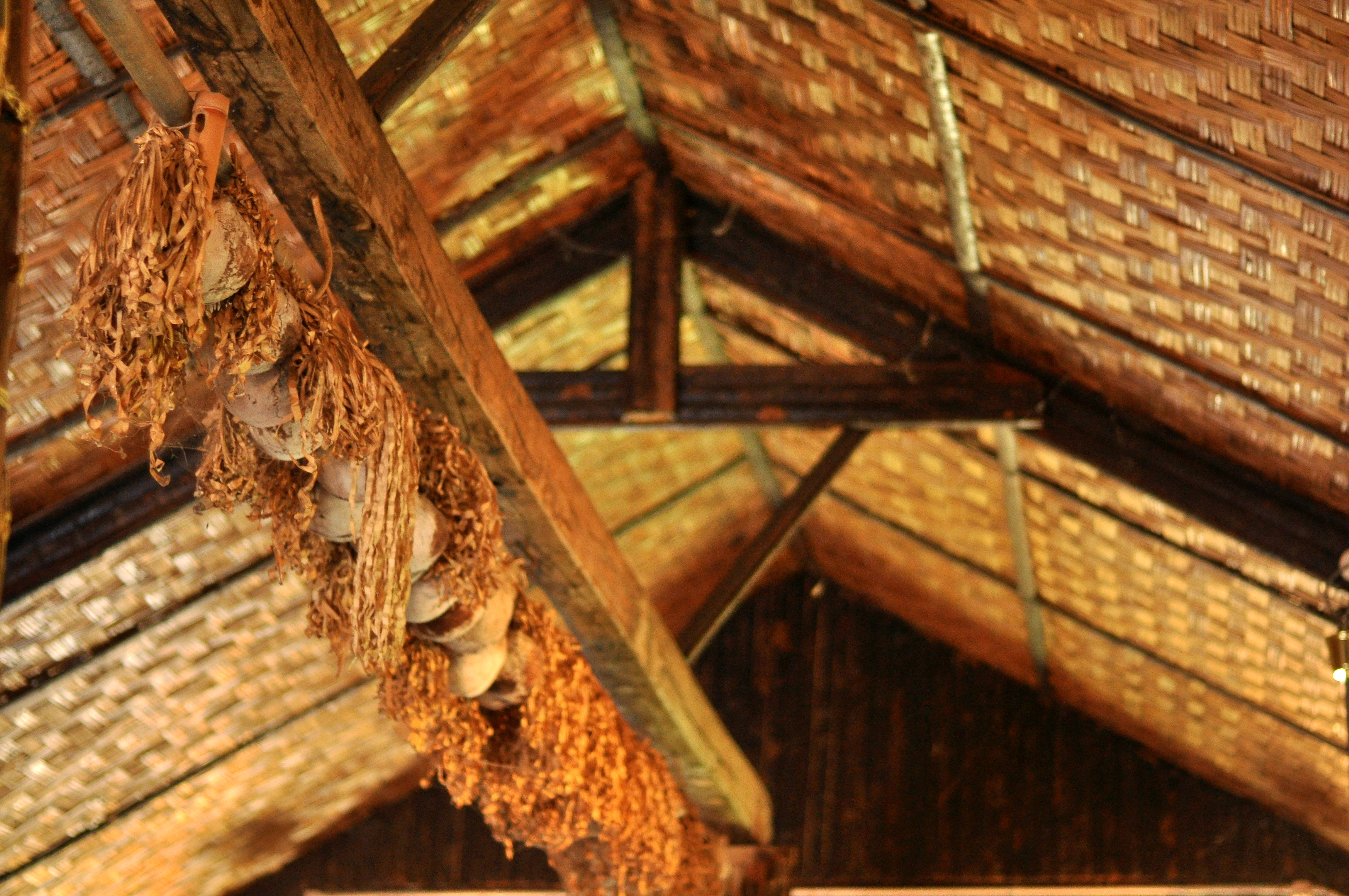 The skulls of "The House of Skulls" at Monsopiad Cultural Village in Penampang (near Kota Kinabalu), Sabah, Malaysia. The village is named after the Kadazan head-hunter warrior Monsopiad. The Village is run by his direct descendants (they claim), and the human skulls on display, hanging from the central beam the house, are said to be the actual ones of his victims. The skulls are adorned with dried palm tree leaves.